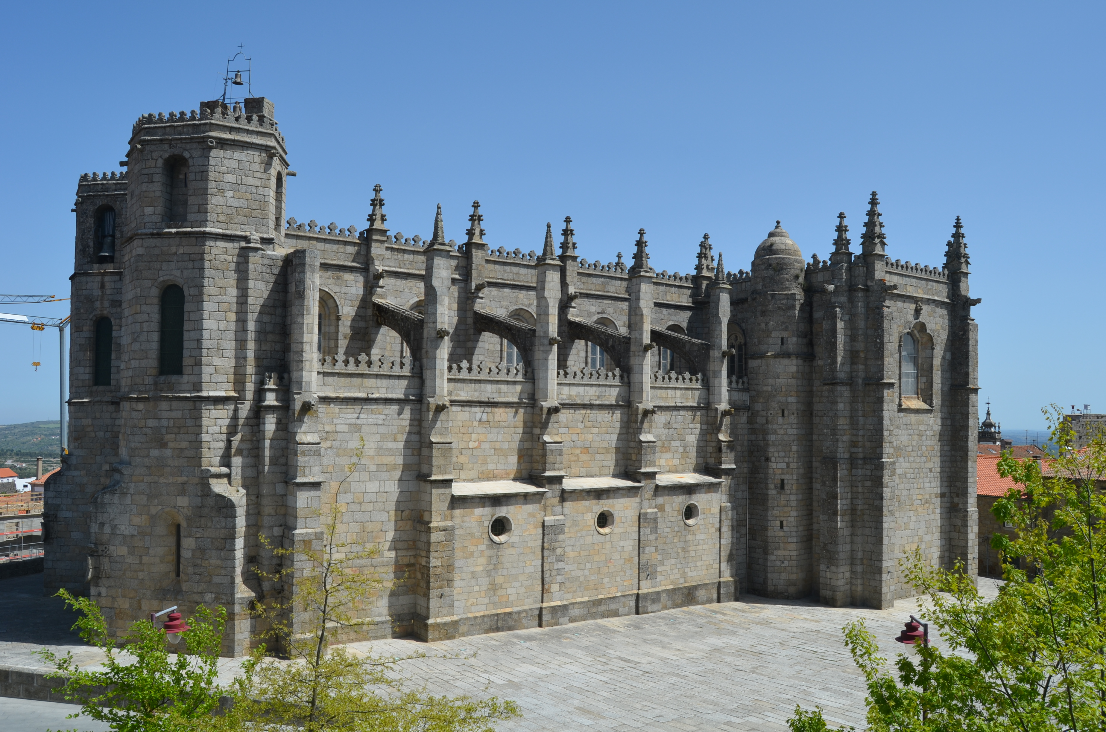 A view over the cathedral